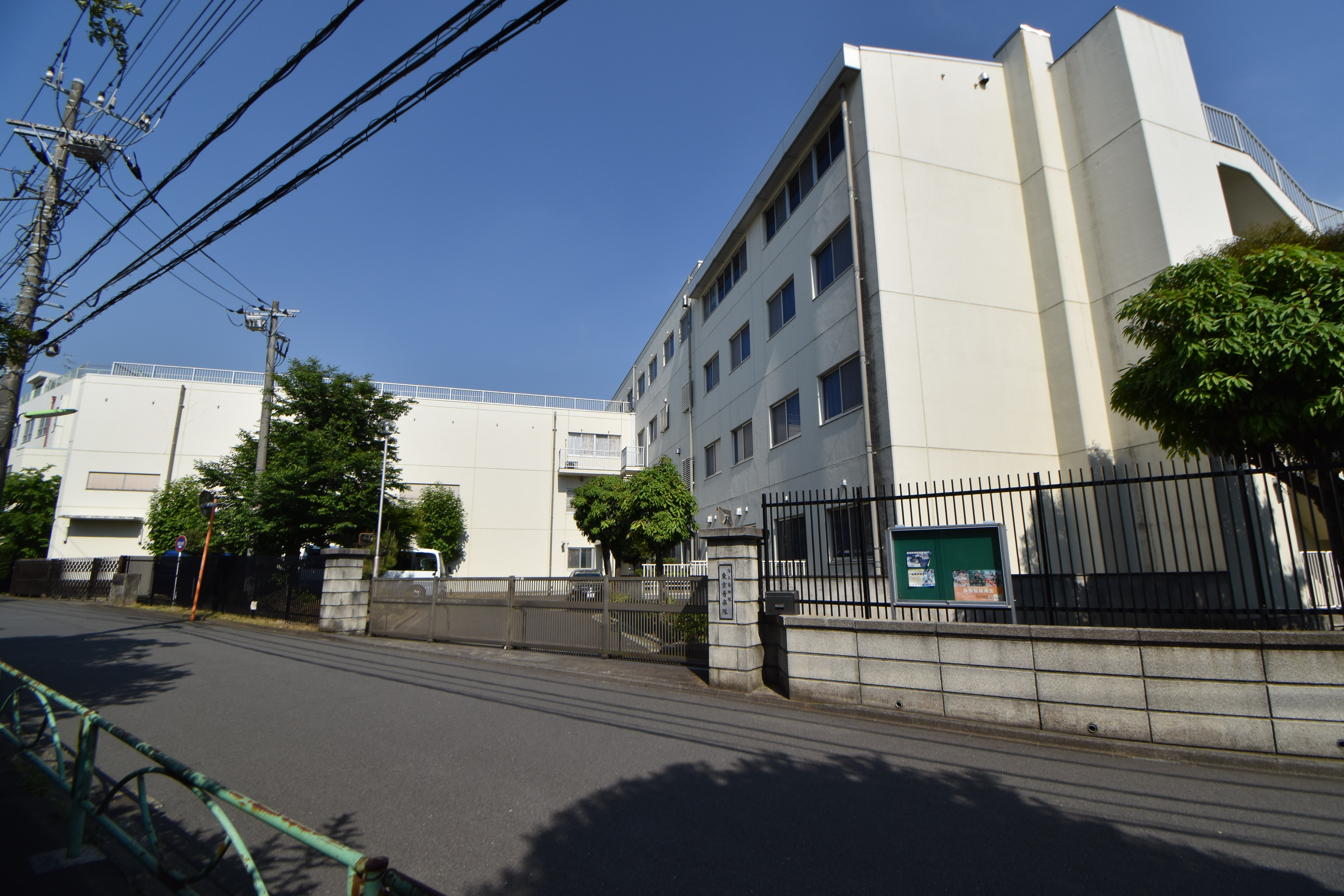 Japan Maritime Self-Defense Force Band, Tokyo.